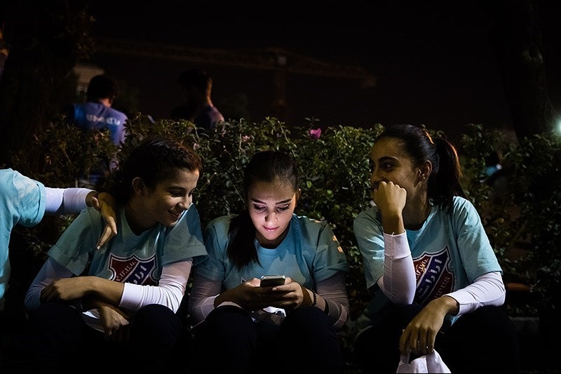 The 48th edition of the Armenian Olympics commenced at Tehran’s Ararat Sports Complex on September 13, 2016. Around 800 Armenian athletes from Iran, Armenia and Georgia compete in the games in 9 fields. for more, Tasnim archive